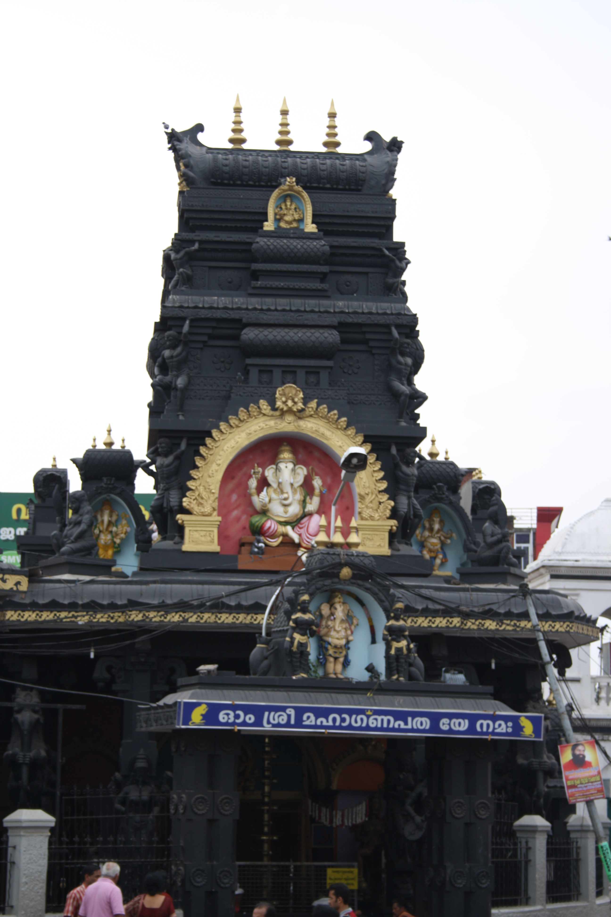 pazhavangadi Ganapathi temple, Thiruvananthapuram.